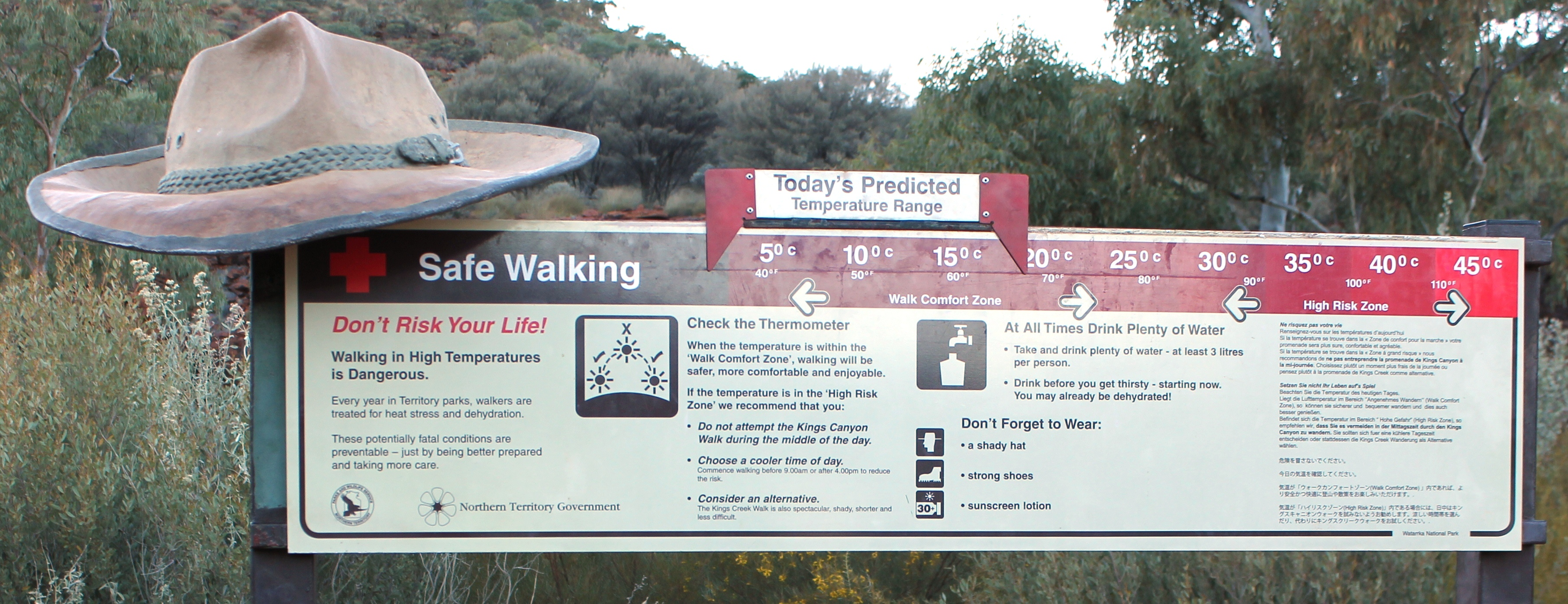 Sign at Kings Canyon, Northern Territory, Australia, informing visitors about risks and giving tips for safe walking. Additionally, there is a slider indicating the predicted temperature range for the day, giving an overview about the conditions to be expected. Besides English, the information is also given in French, German and Japanese.